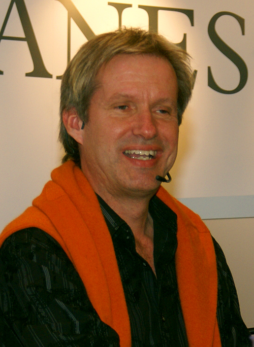 Peter H. Fogtdal, Danish writer.